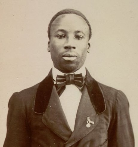 Photograph of "a black man born in Lima (27 y.o.)". Part of Collection anthropologique: Portraits.